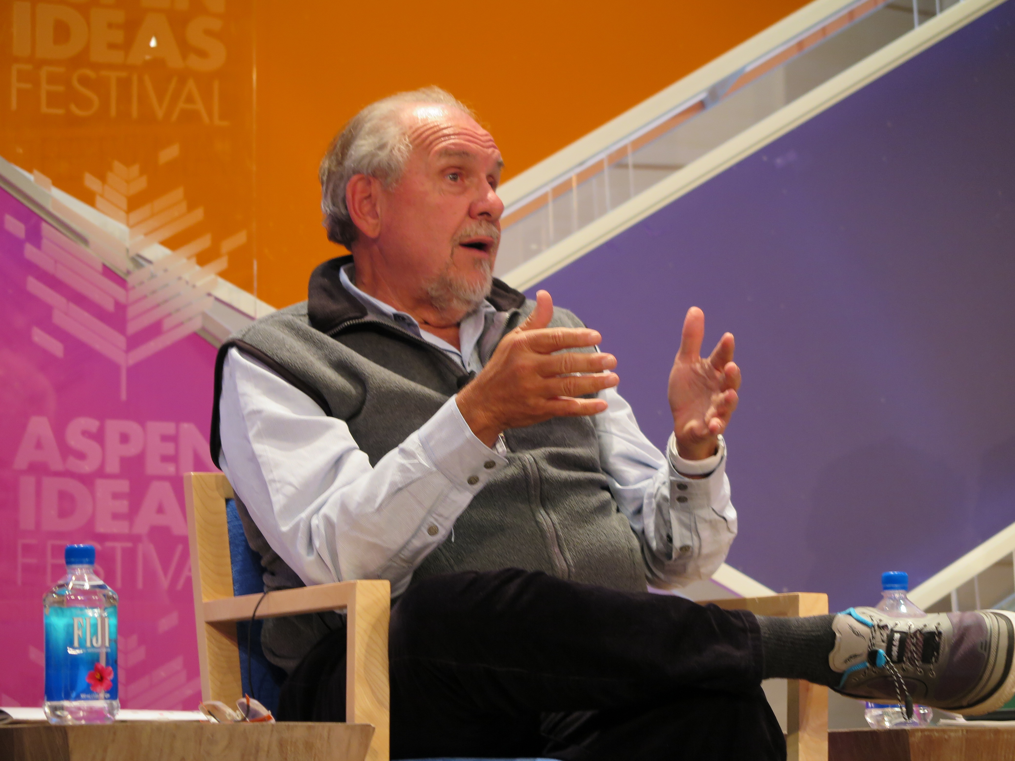 Larry Brilliant at Spotlight Health Aspen Ideas Festival 2015